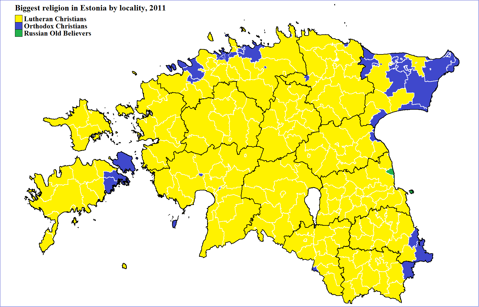 Plurality religion in Estonia by locality.